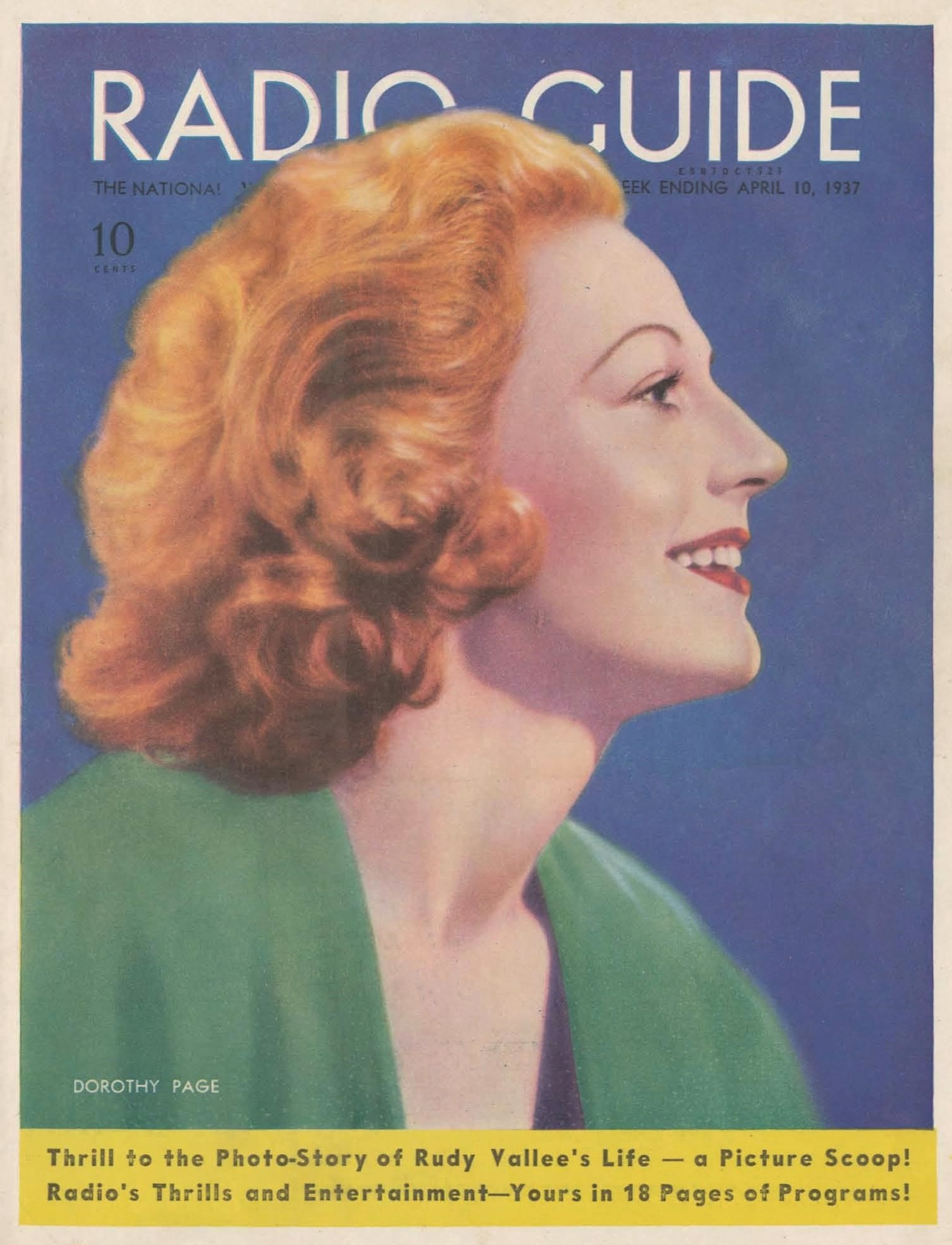 Dorothy Page by Charles E. Rubino - Radio Guide April 1937